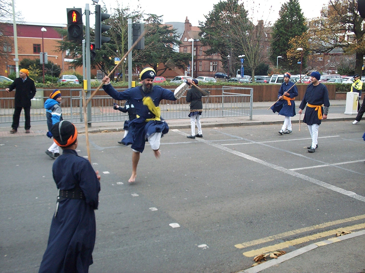 Demonstration of the Sikh martial art of Gatka, at the head of a religious procession (celebrating the 538th birthday of Guru Nanak Dev) by Sikhs in Bedford, Bedfordshire, England. It is taking place at on Kempston Road at the Junction with Britannia Road and the building in the background is Bedford Hospital South Wing.